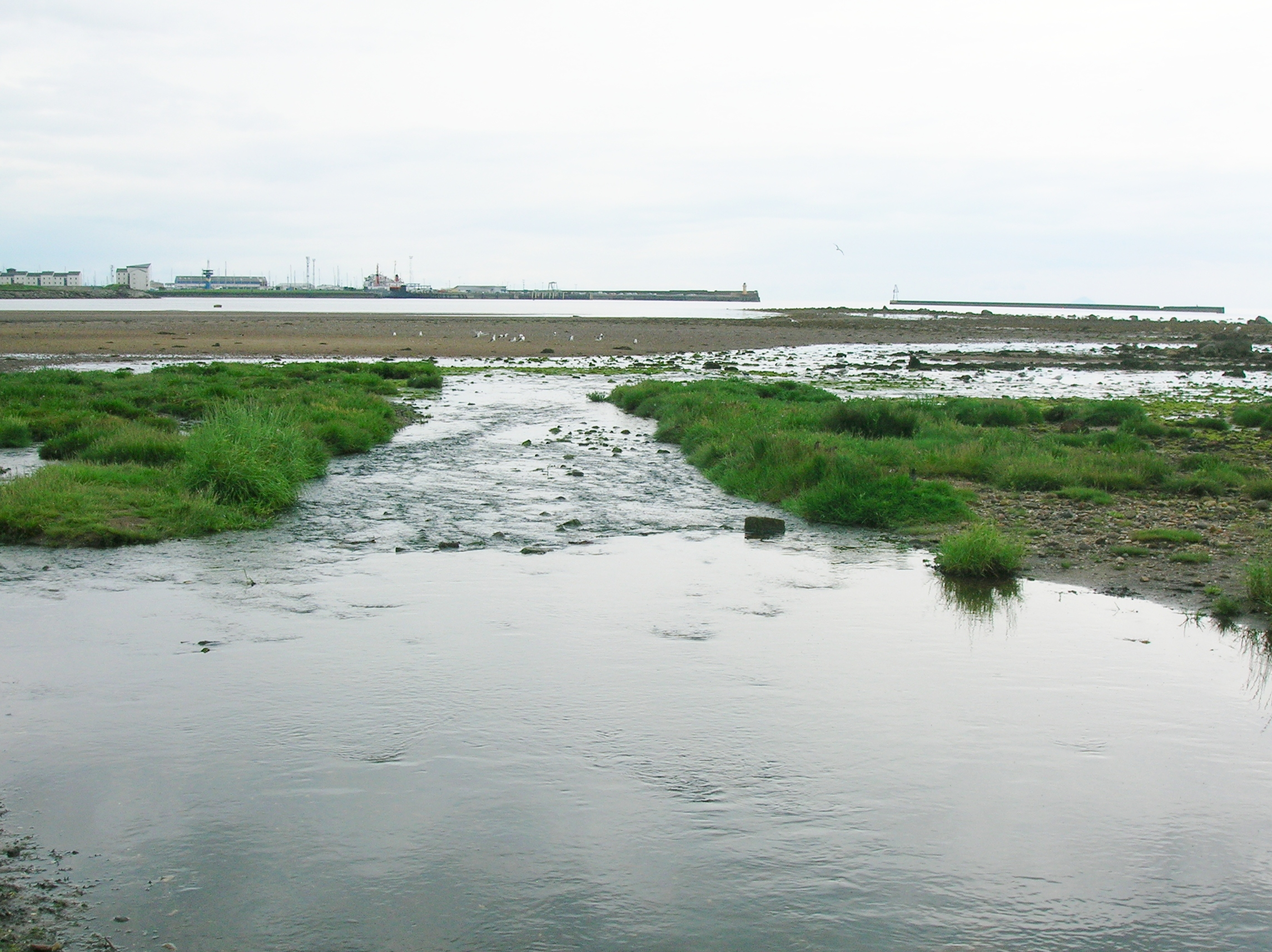 Montfode Burn and Ardrossan North Bay, North Ayrshire, Scotland. Long Craigs to the right and the site of the murder of the 10th Earl of Eglinton in 1769.